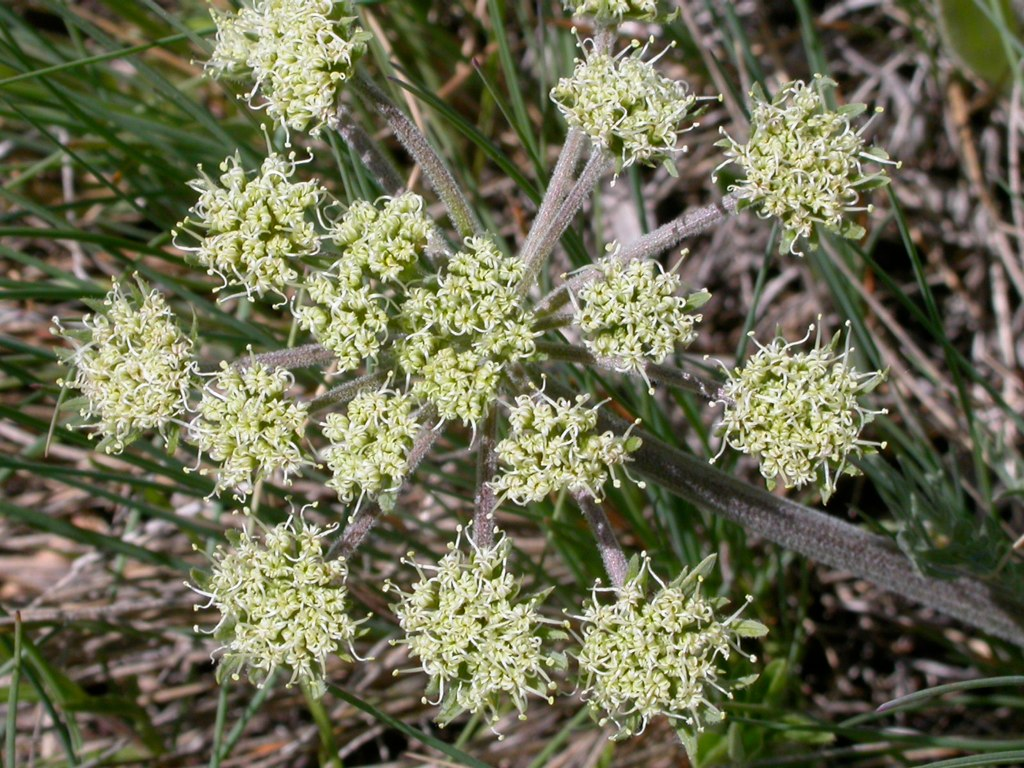 The white flowers associated with hairy involucels are characteristic of this species.